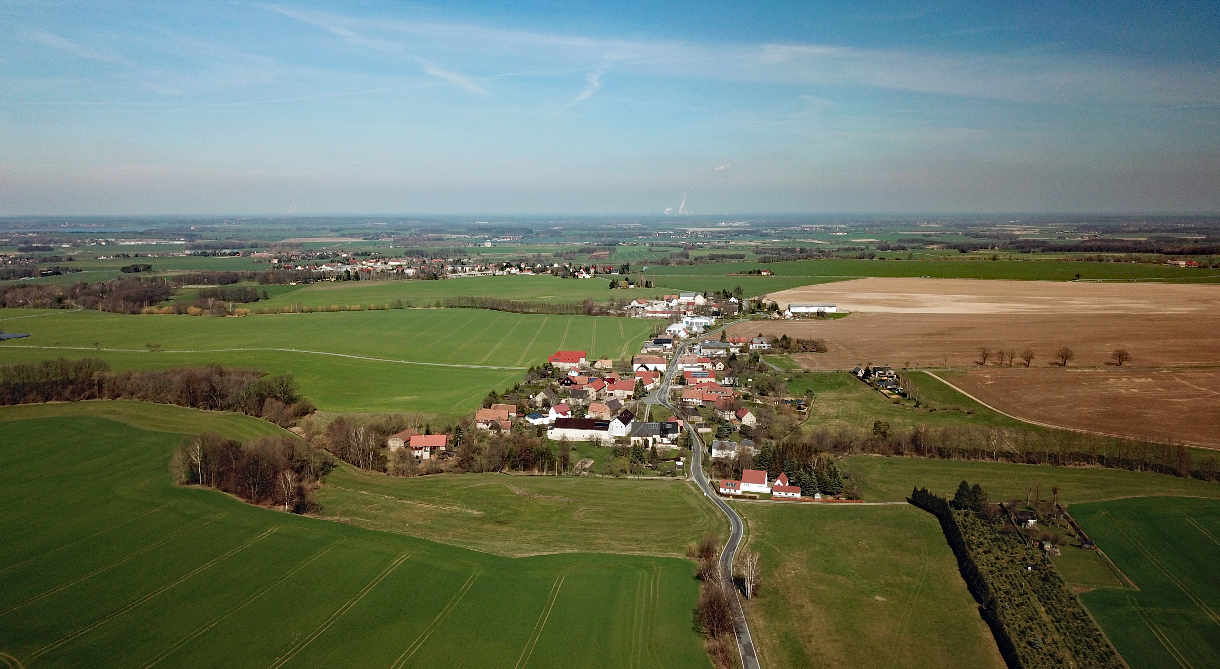 Soritz (Kubschütz, Saxony, Germany) Hornjoserbsce: Powětrowy wobraz Sowrjec Dieses Foto wurde mit einem Quadcopter innerhalb der RMZ des Flugplatzes EDAB aufgenommen. Der Flugleiter wurde am Aufnahmetag telephonisch über Ort und Zeit informiert und hat zugestimmt. Der Flug erfolgte auf Grundlage der Allgemeinverfügung der Landesdirektion Sachsen zur Erteilung der Betriebserlaubnis für unbemannte Luftfahrtsysteme und Flugmodelle gemäß § 21a LuftVO und Zulassung von Ausnahmen von Betriebsverboten gemäß § 21b LuftVO für den Freistaat Sachsen.